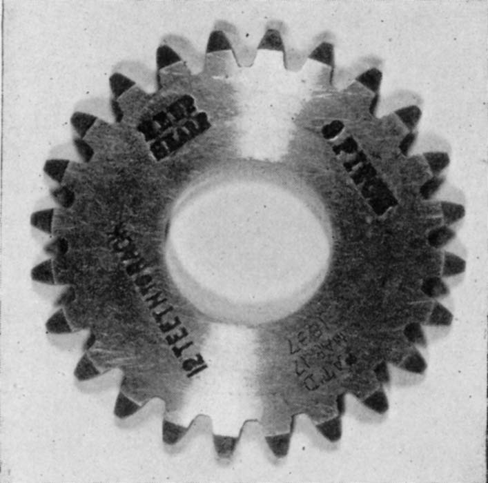 Early example of cutter designed by Edwin R. Fellows for efficient manufacture of gears